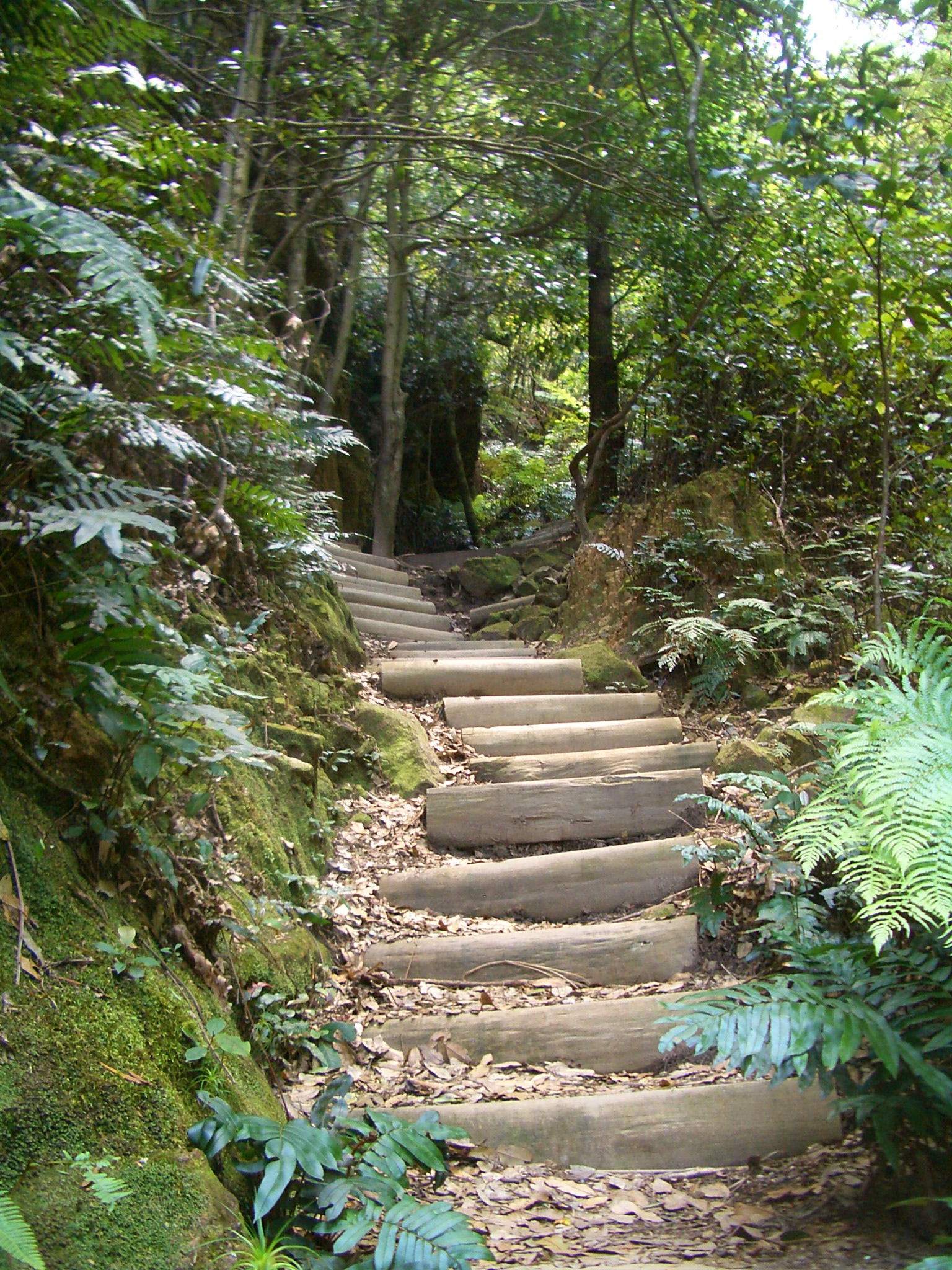 Six-Foot Track descending into Nellie's Glen, outisde Katoomba